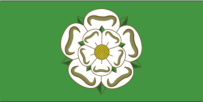 The County Flag of North Yorkshire.